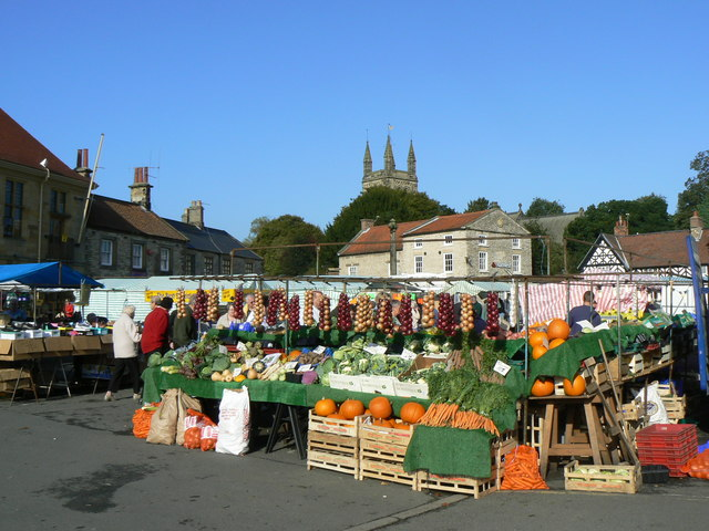 Market day Colourful vegetable stall in Helmsley market. Church tower in the background.